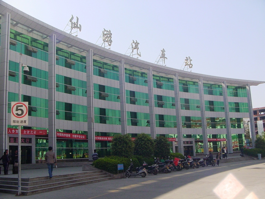 Xianyou Bus terminal in Putian, Fujian Province, China